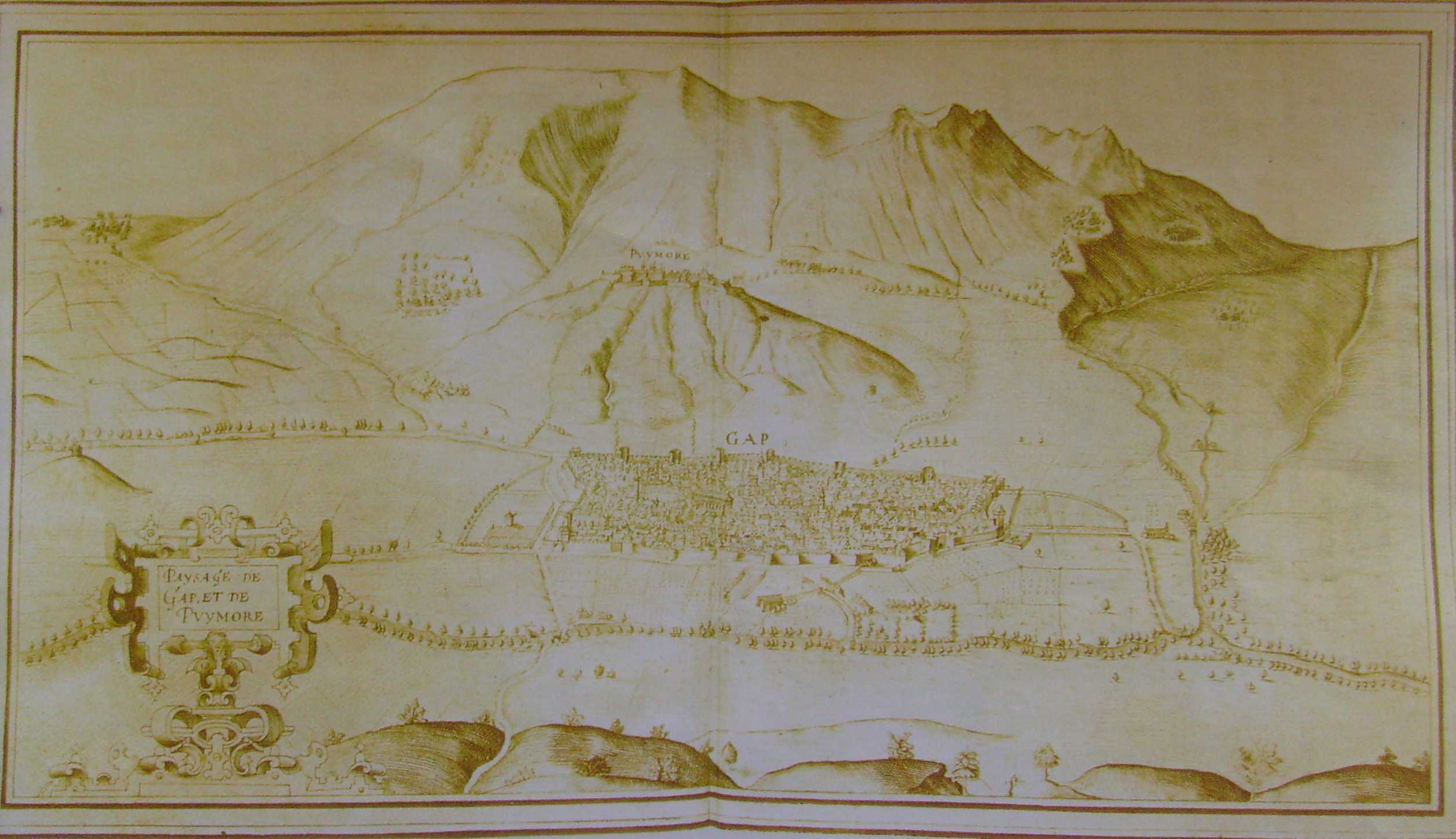 Gap in 1607( Hautes-Alpes, France)